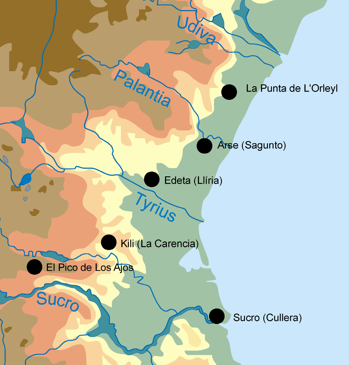 The Edetanian cities on the Regio Edetania map